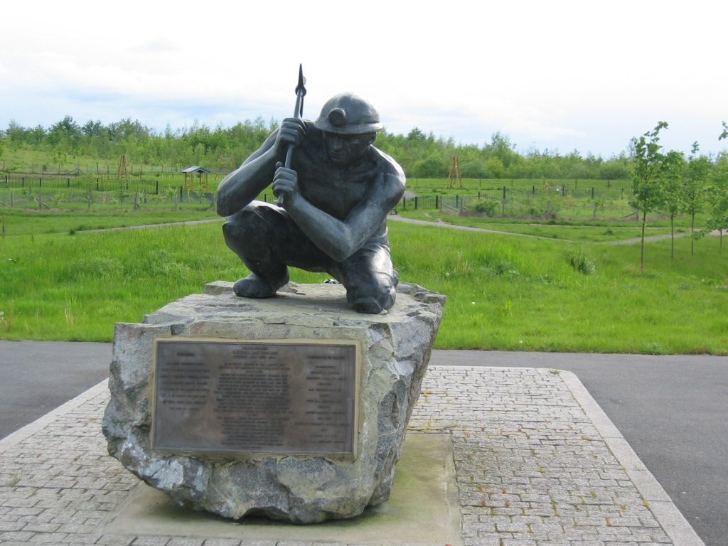 Statue of a local miner. Bagworth, Hinckley and Bosworth, Leicestershire, England, UK. Summary Statue of a local miner. Bagworth, Hinckley and Bosworth, Leicestershire, England, UK.